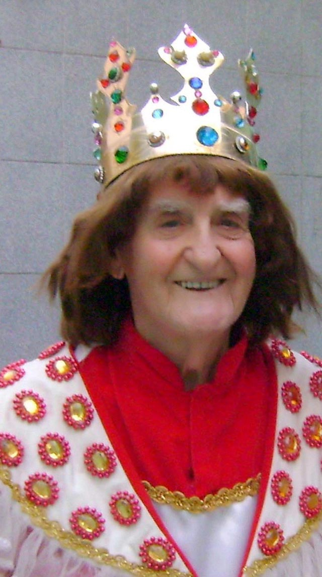 King Momo Waldemar, today, December 2008